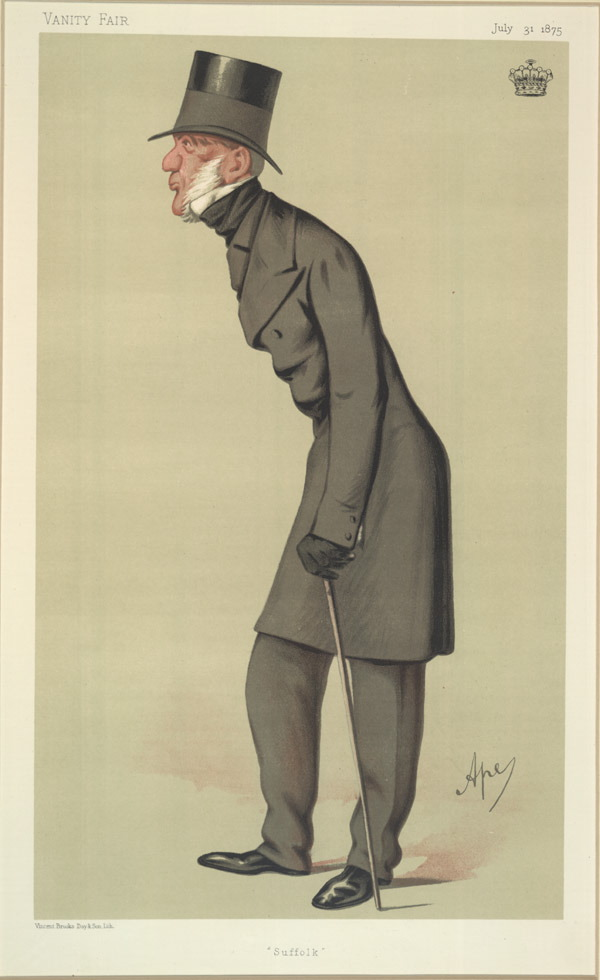 Statesmen No.209: Caricature of The Earl of Stradbroke. Caption reads: "Suffolk"